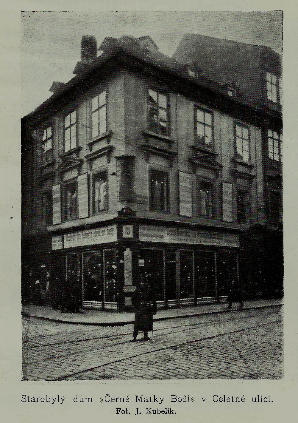 Original Baroque building demolished in 1911 where the well-known Cubist House of the Black Madonna was built then.